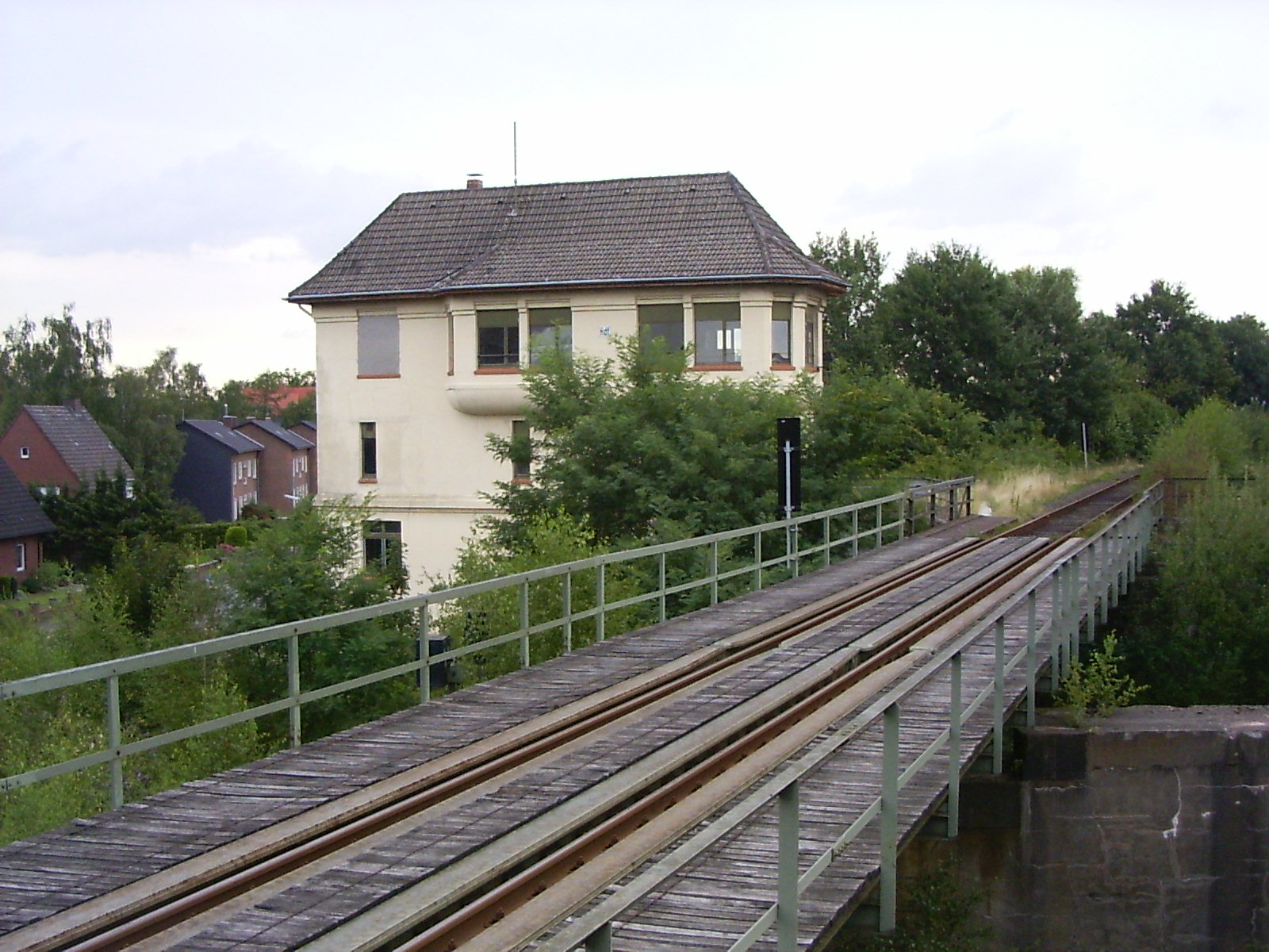 Signal box at Hervest-Dorsten train station. This impressive 'Fahrdienstleiterstellwerk „Hdf“' was demolished in 2007.